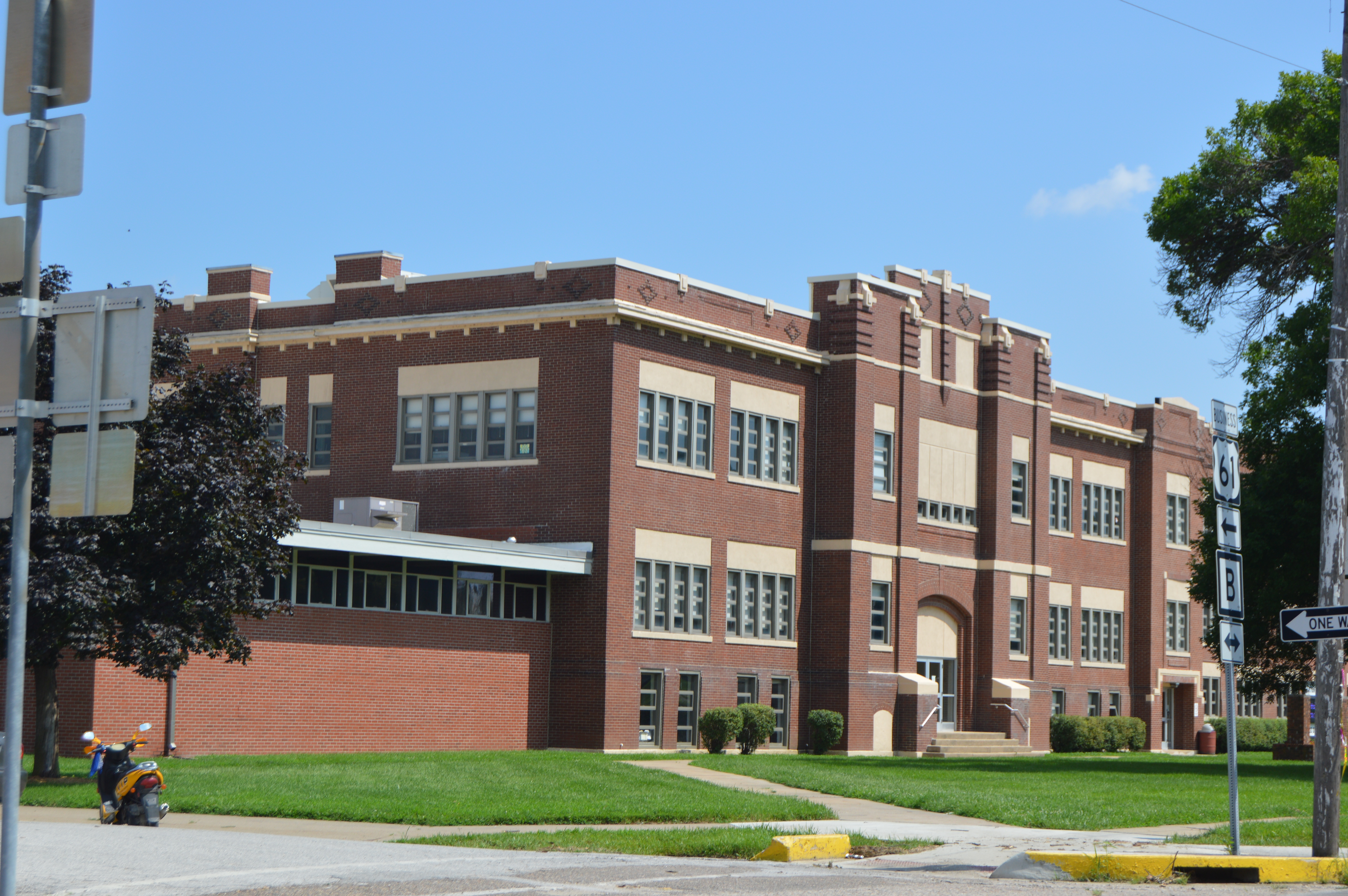 Front of Canton High School, located at 200 S. Fourth Street in Canton, Missouri, United States.